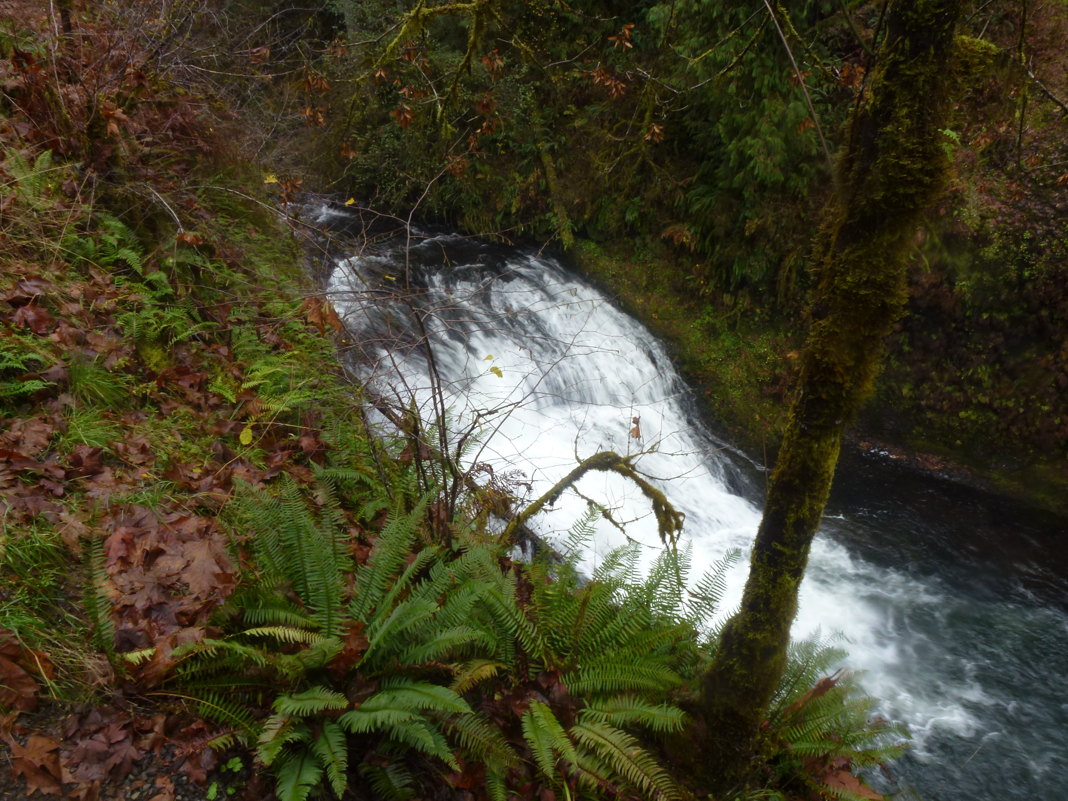 27-foot (8 m) tall Drake Falls in Silver Falls State Park.